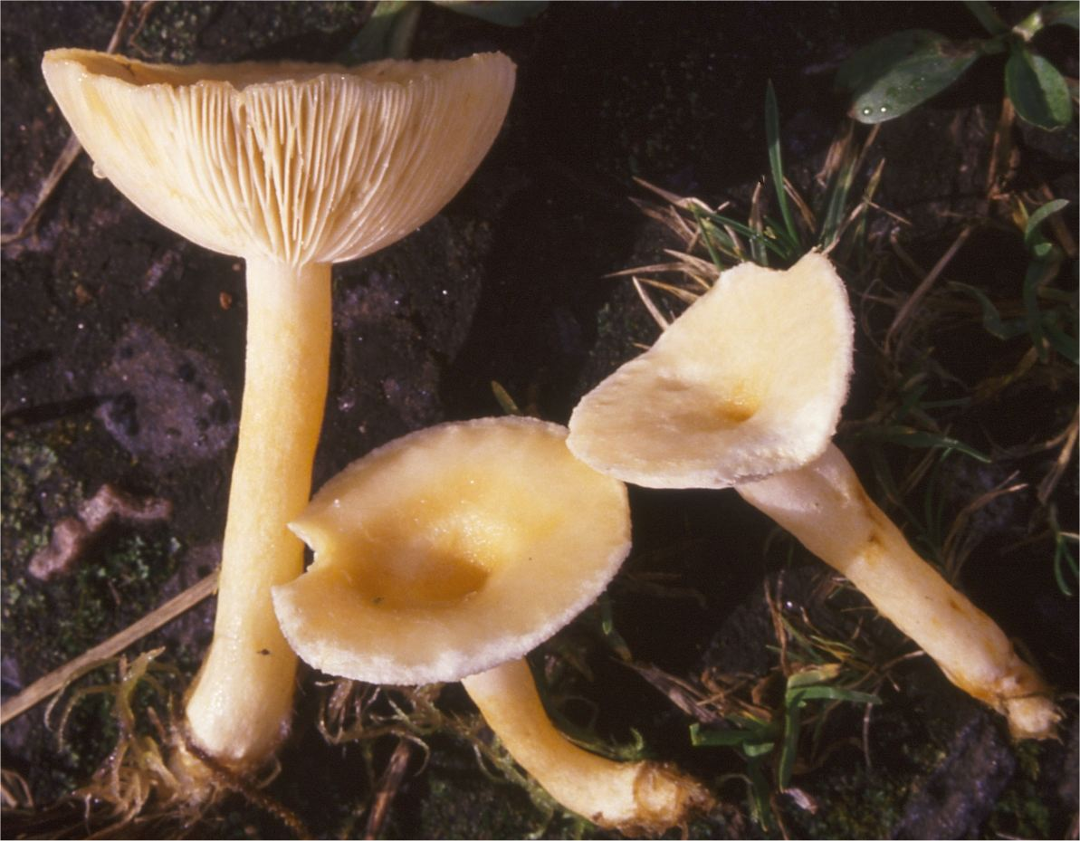 Lactarius scoticus Berk. & Broome Image location: Dalarna, Sweden Recognized by sight For more information about this, see the observation page at Mushroom Observer.